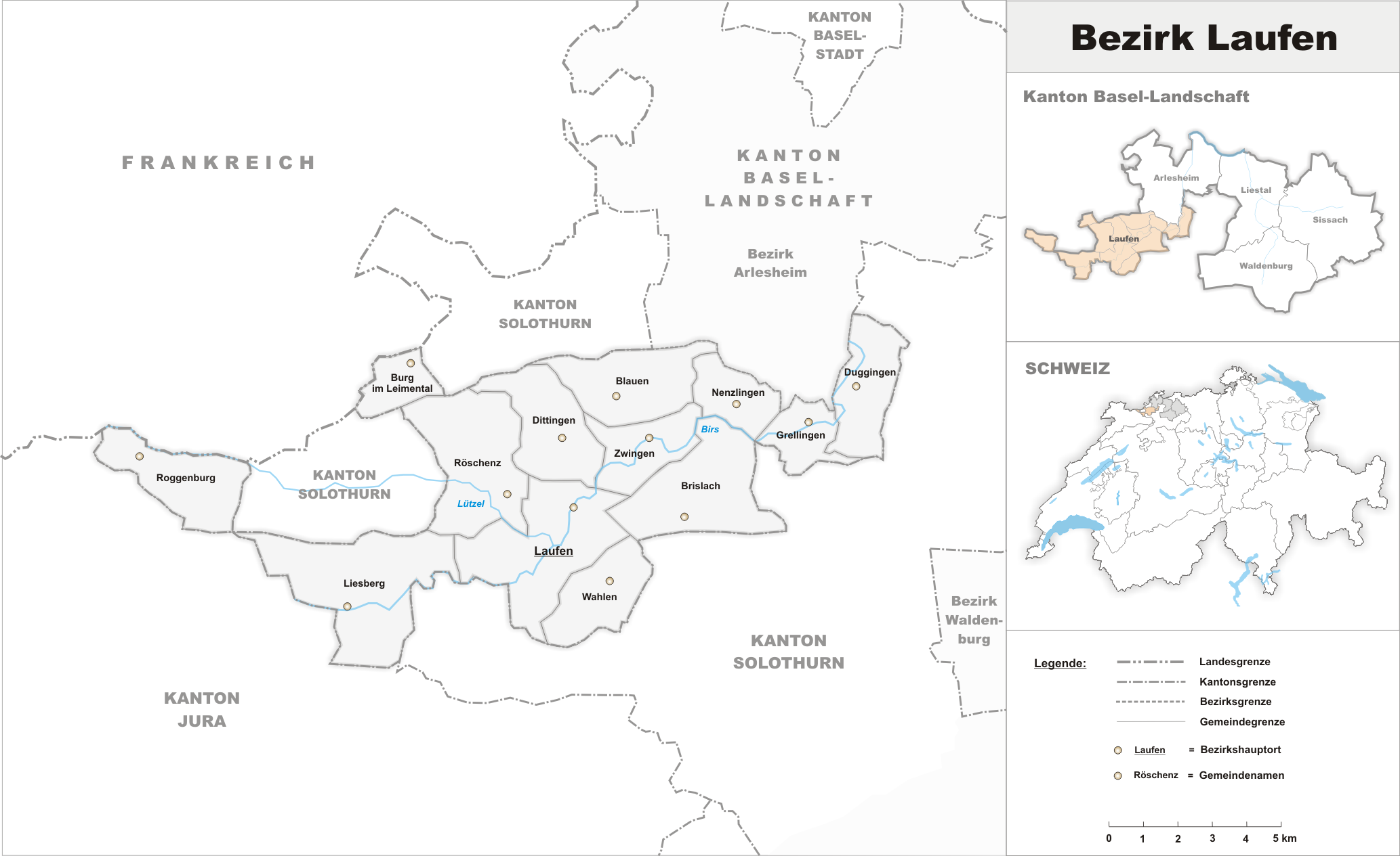 Municipalities in the district of Laufen